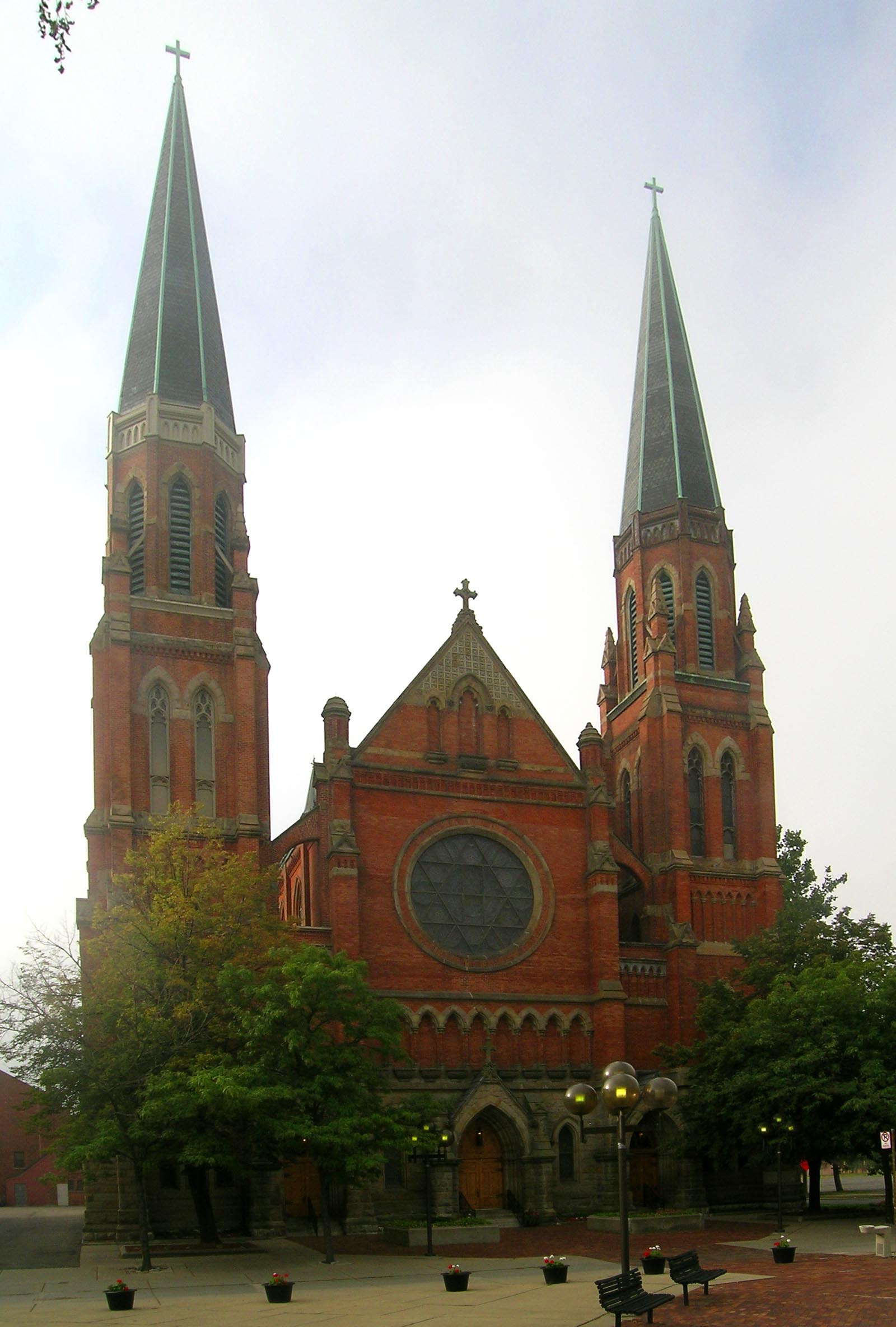 Ste Anne de Detroit Roman Catholic Church